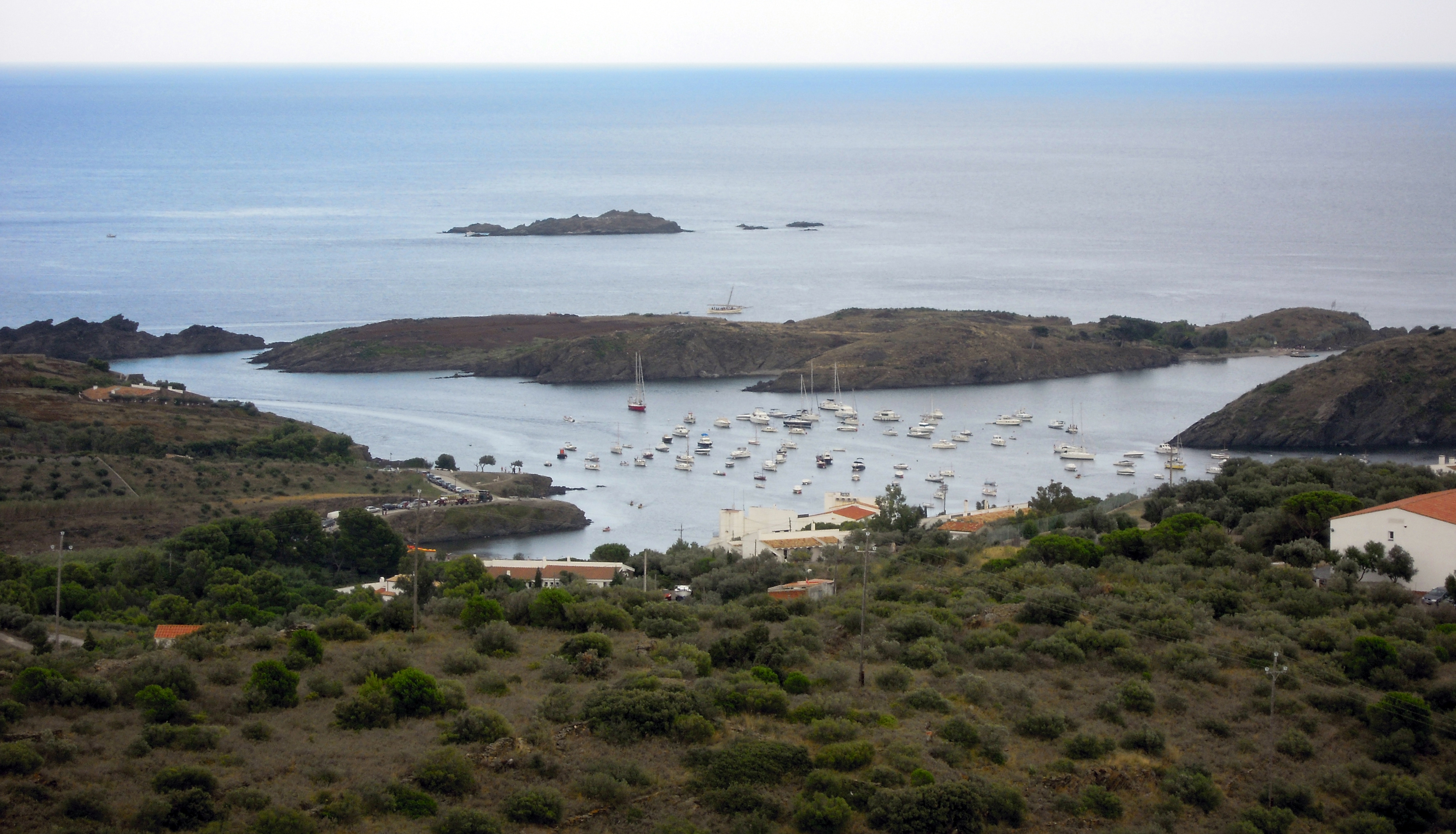 View of Portlligat with the Island of Portlligat in the middle, Sa Farnera on the left and Messina background.